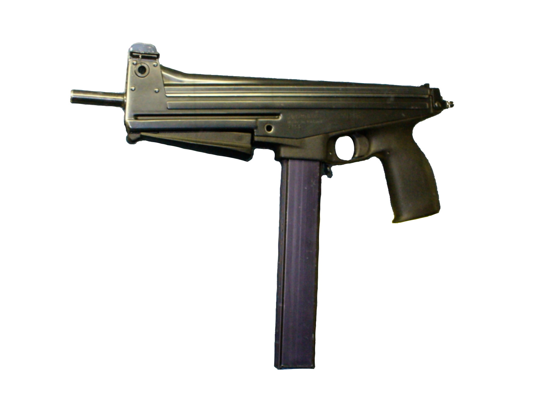 Jati-Matic, Finnish submachine gun